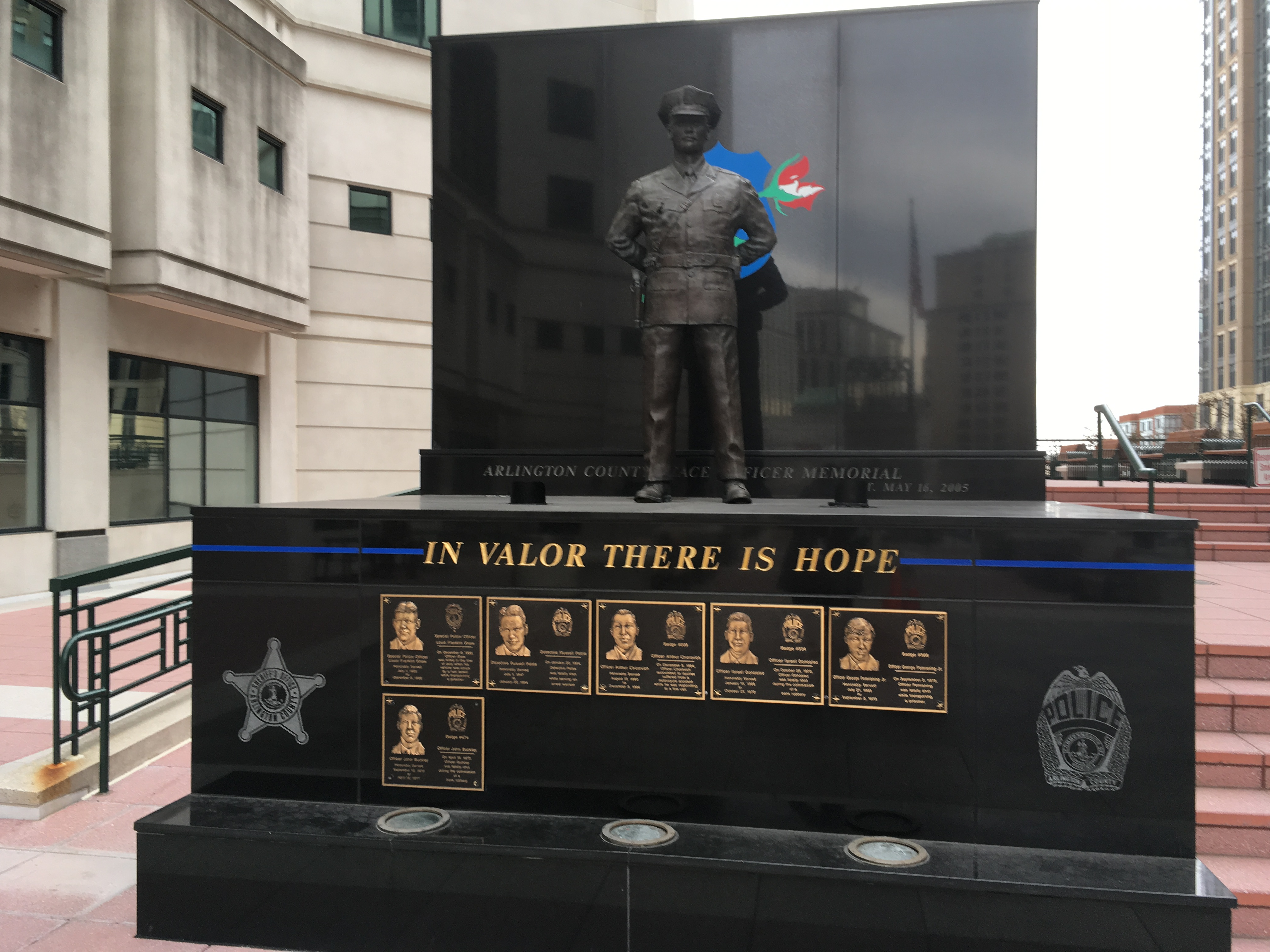 Near the Arlington Courthouse, the memorial to the fallen officers.